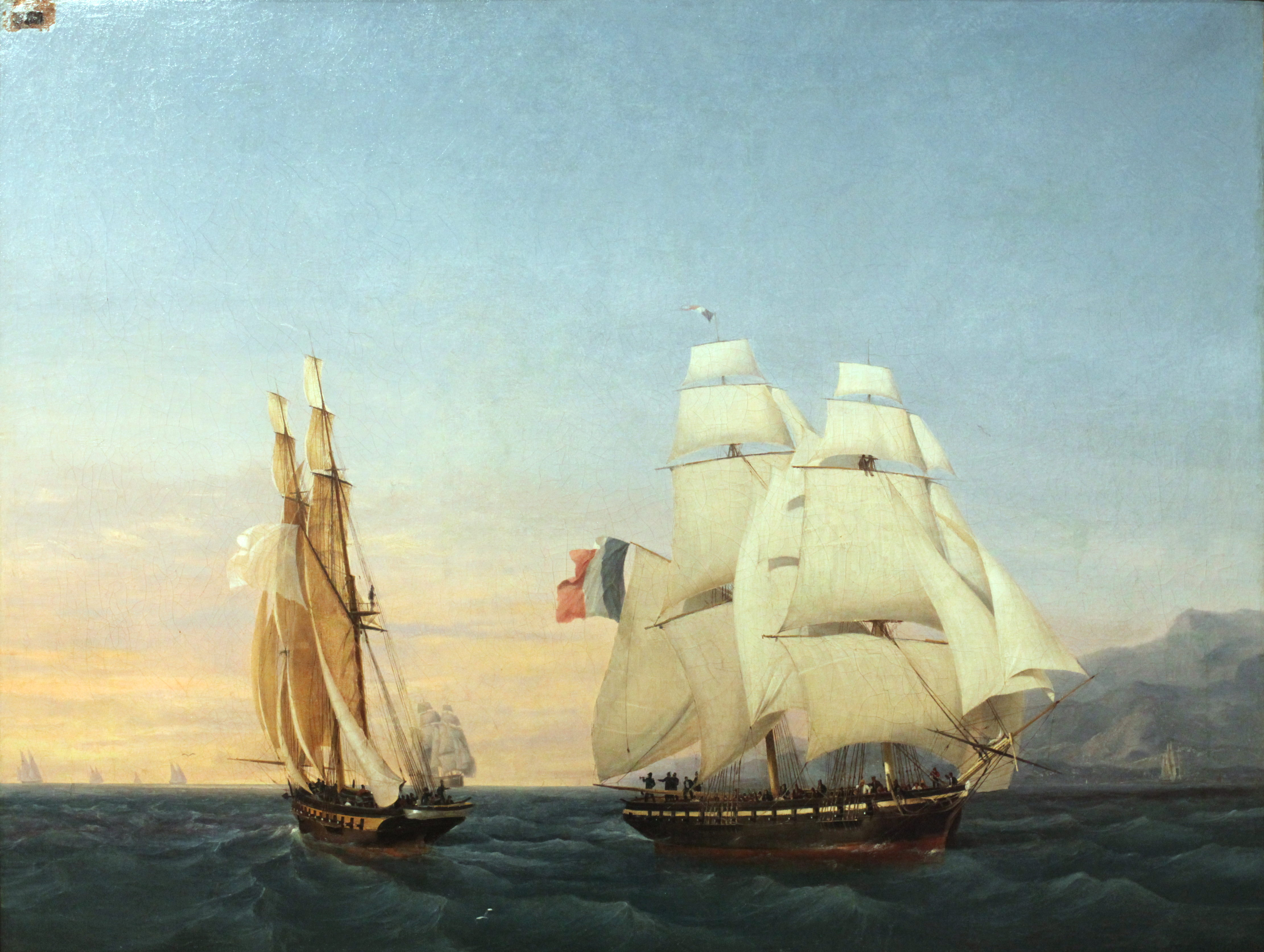 The brig Inconstant, under Captain Taillade and ferrying Napoleon to France, crosses the path of the brig Zéphir, under Captain Andrieux. Inconstant flies the tricolour of the Empire, while Zéphir flies the white ensign of the Monarchy. Soldiers of the Imperial Guard are crouching on deck while Napoleon stands fore of the main mast.